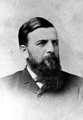 Photograph of Charles X. Larrabee.